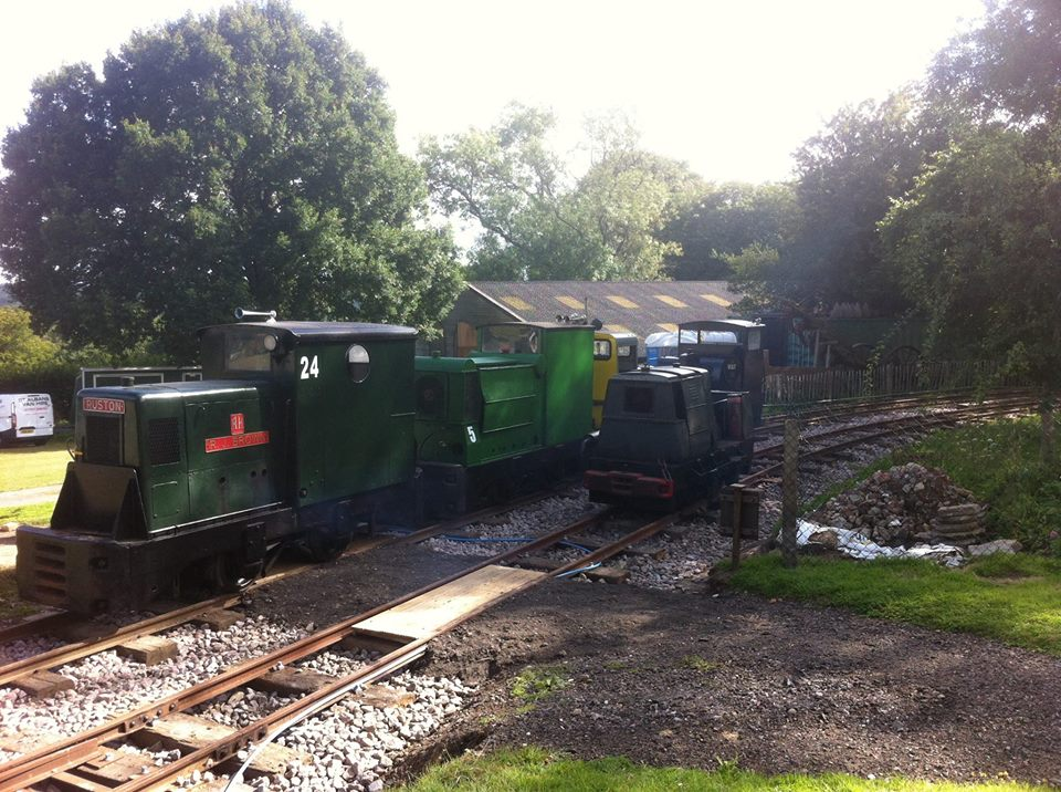 Great Bush Railway Diesels